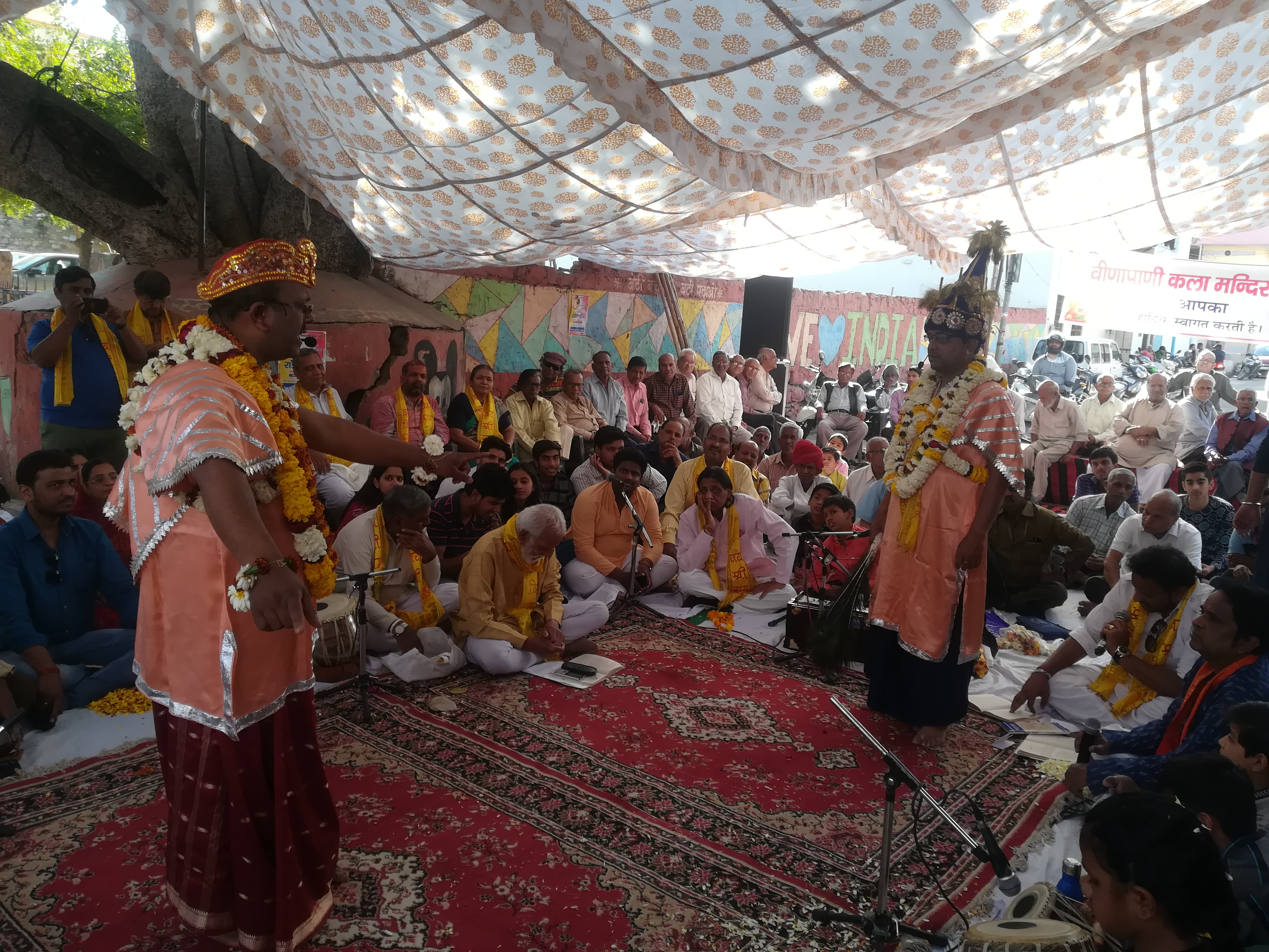 Jaipur Tamasha